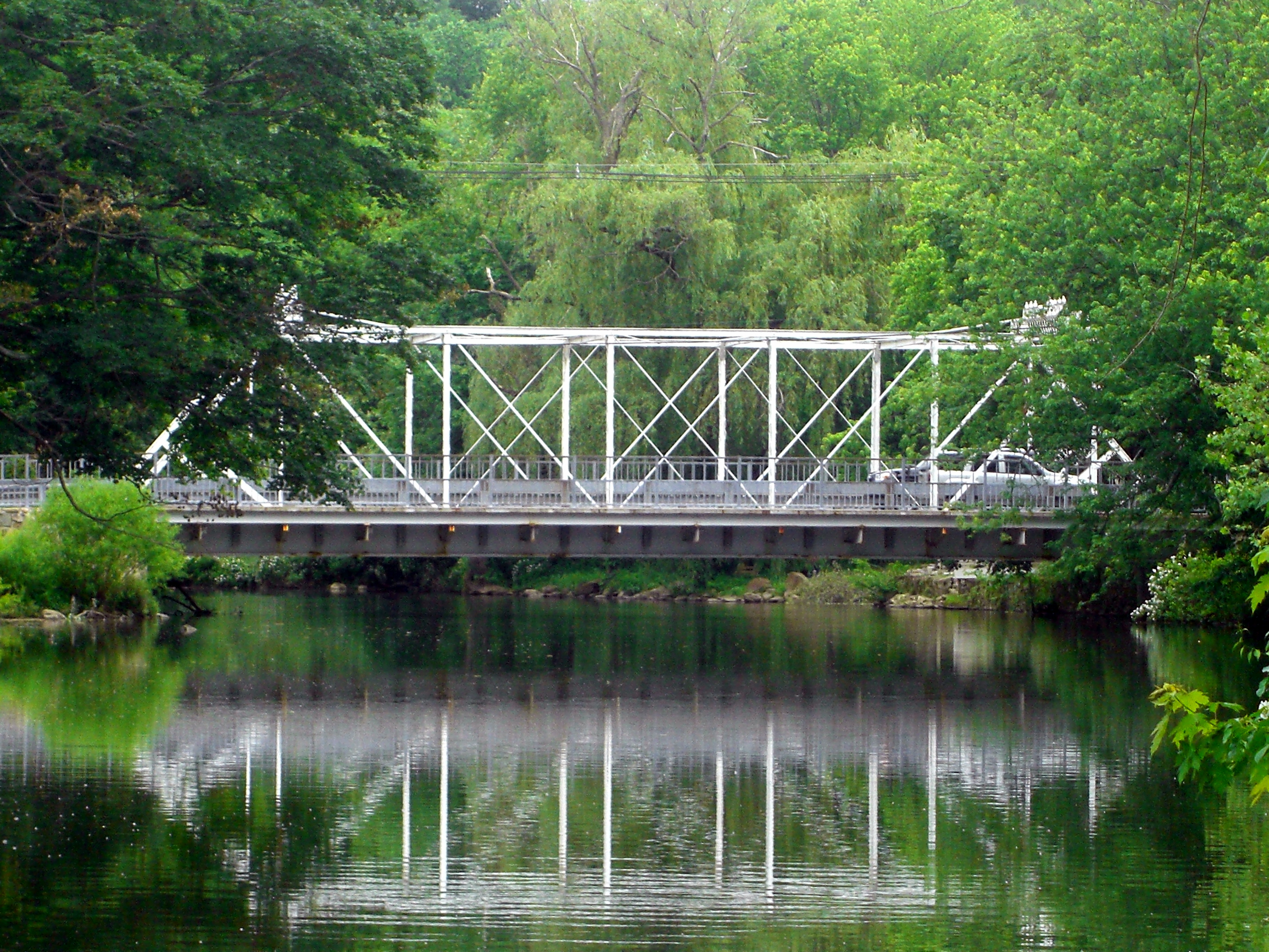 A bridge in the Califon, NJ Historic District.